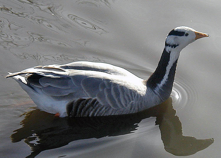 Bar-headed Goose (Anser indicus) at Slimbridge Wildfowl and Wetlands Centre, Gloucestershire, England.